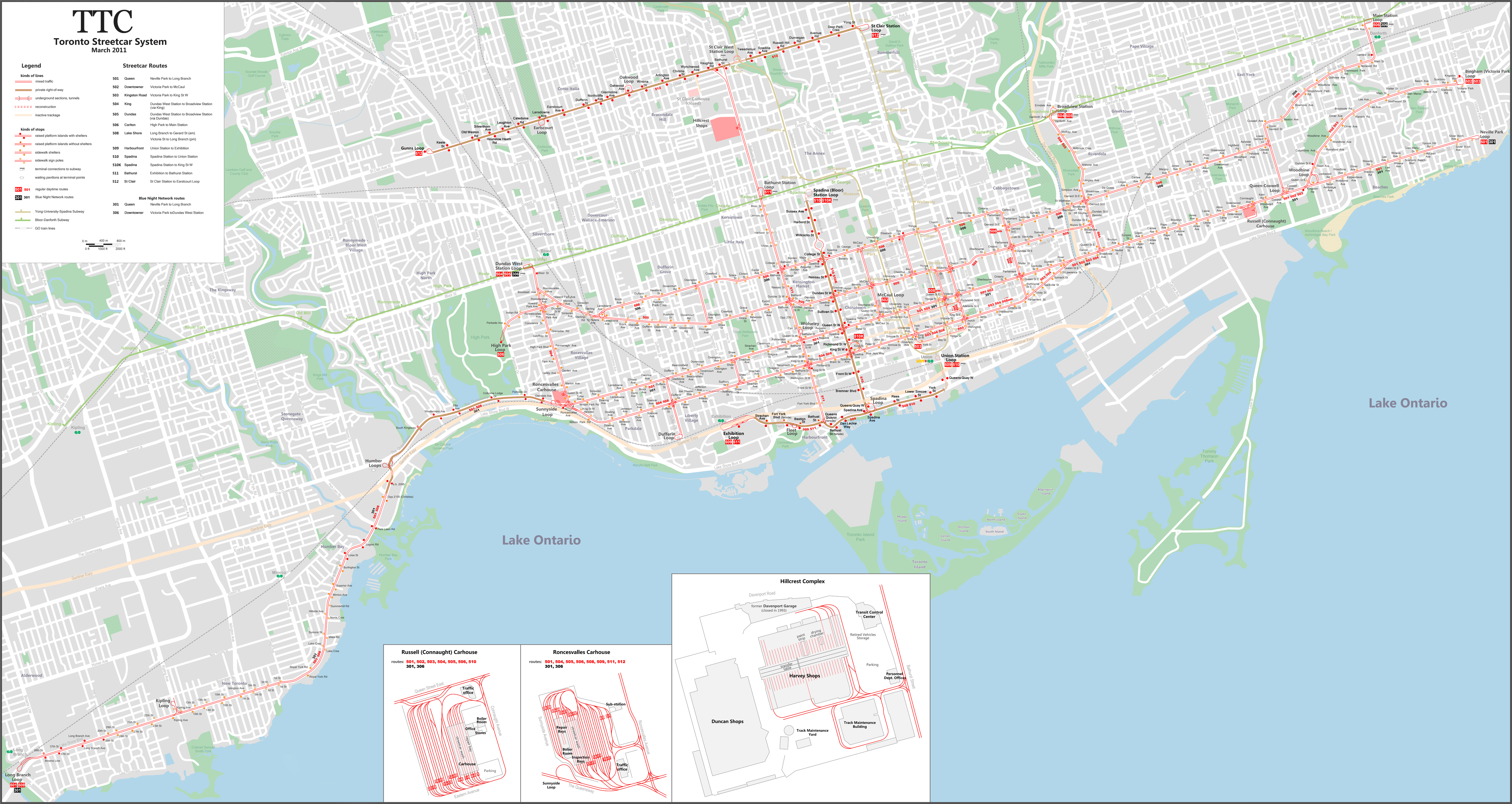 Track map of TTC network containing loops, stops, subway and GO Transit stations